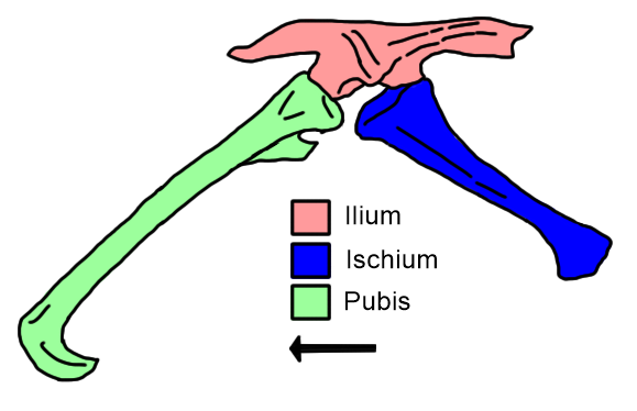 The left pelvis of Poposaurus gracilis, a poposauroid. Based primarily on YPM VP 057100 ("the Yale specimen"), with some details, such as structure of the obturator region, based on other specimens. Arrow indicates anterior direction.